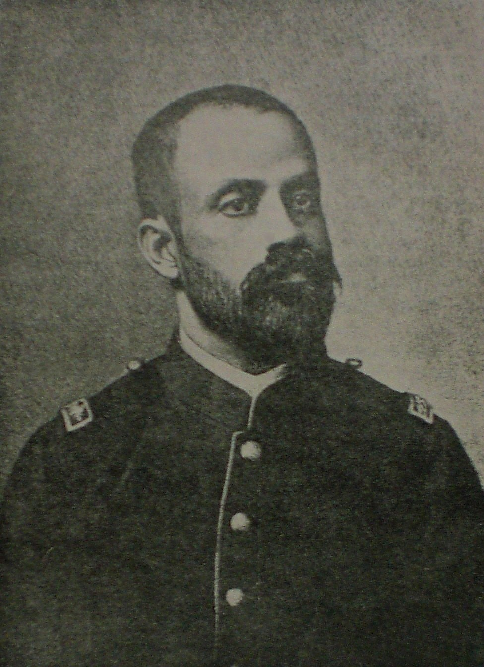 Portrait of Cipriano Castro in 1899.